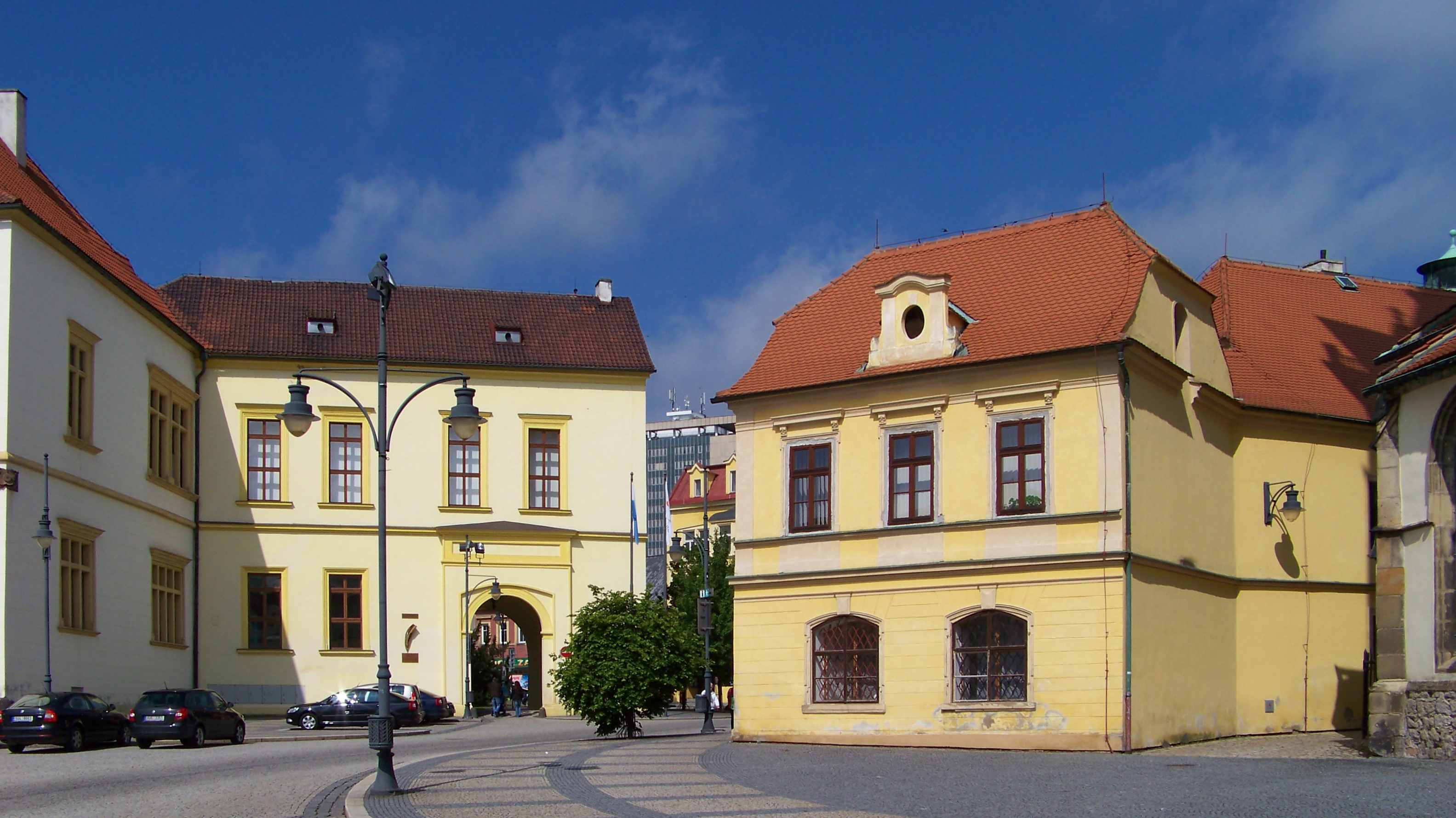 Chomutov, Chomutov District, Ústí nad Labem Region, Czech Republic. Náměstí 1. máje 1, a castle with Sain Catherine church, no. 2, a rectory.